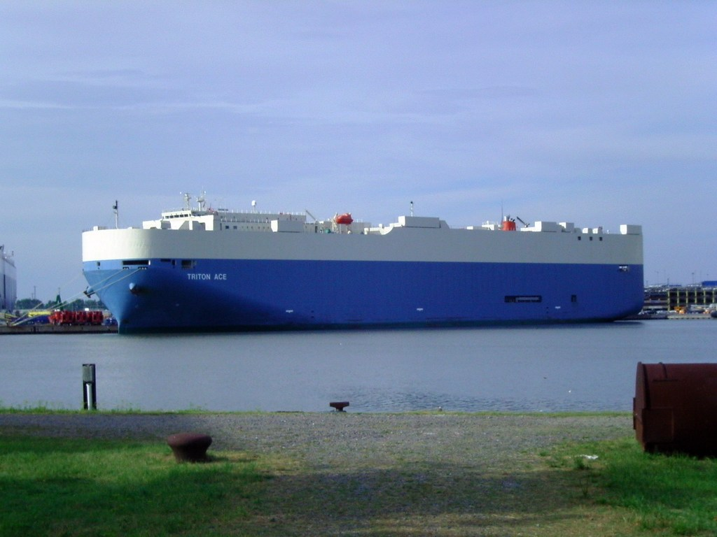 The car carrier Triton Ace of the Japanese company Mitsui O.S.K. Lines in the port of Bremerhaven